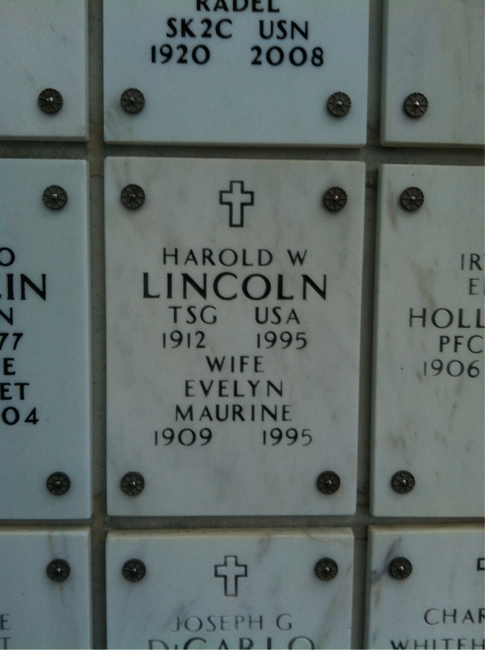 Grave of Evelyn Lincoln at Arlington National Cemetery